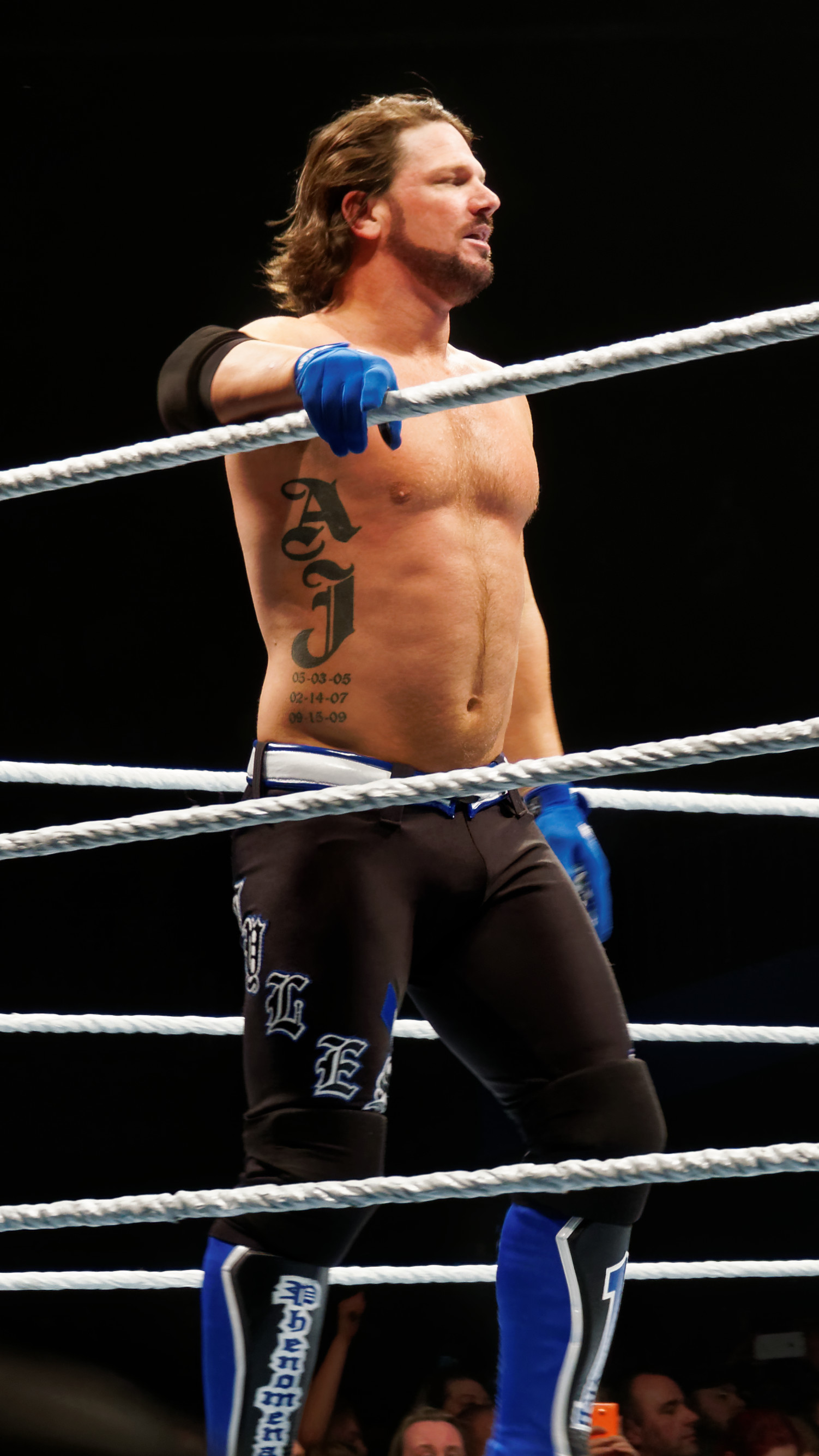 WWE Live WrestleMania Revenge AJ Styles def. Chris Jericho